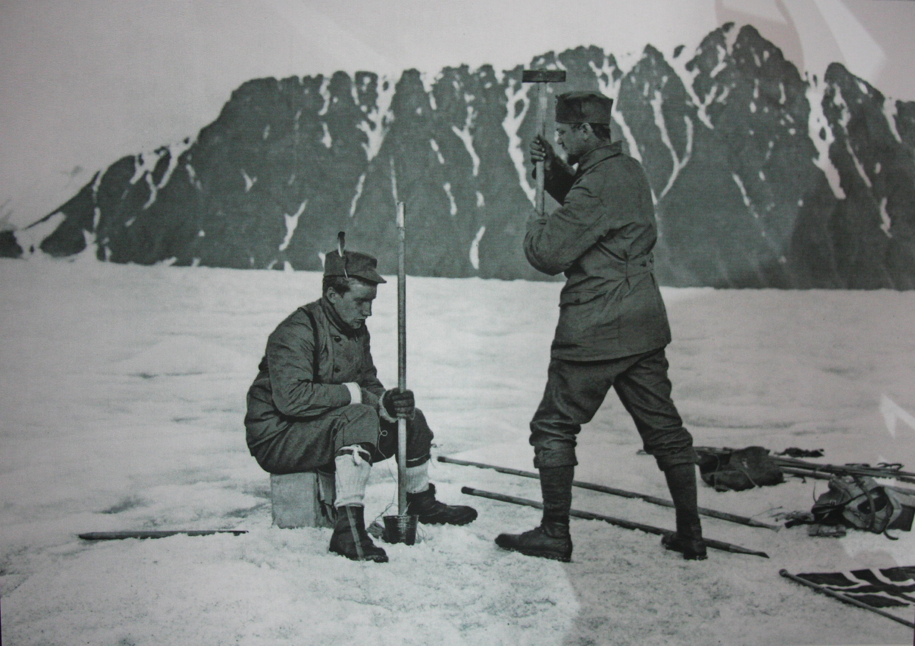 Norwegian explorer Adolf Hoel (right) raising tent at Lilliehöök Glacier in Kings Bay, Svalbard. Photo by Norwegian Institute for Svalbard and Ice Sea Exploration (NSIU), 1907. Property Rights expired.